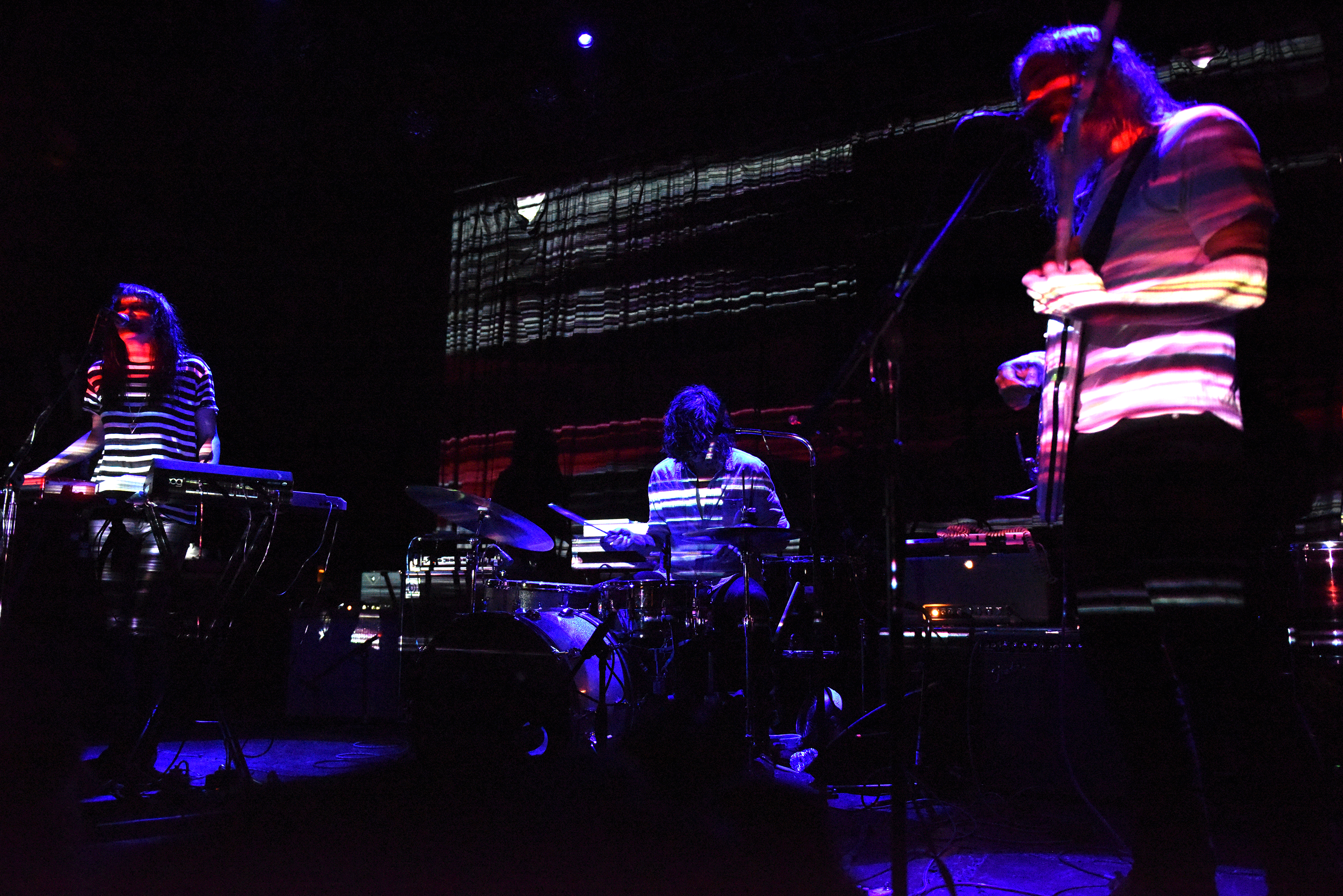 CMJ Music Marathon October 23, 2014 Bowery Ballroom New York City